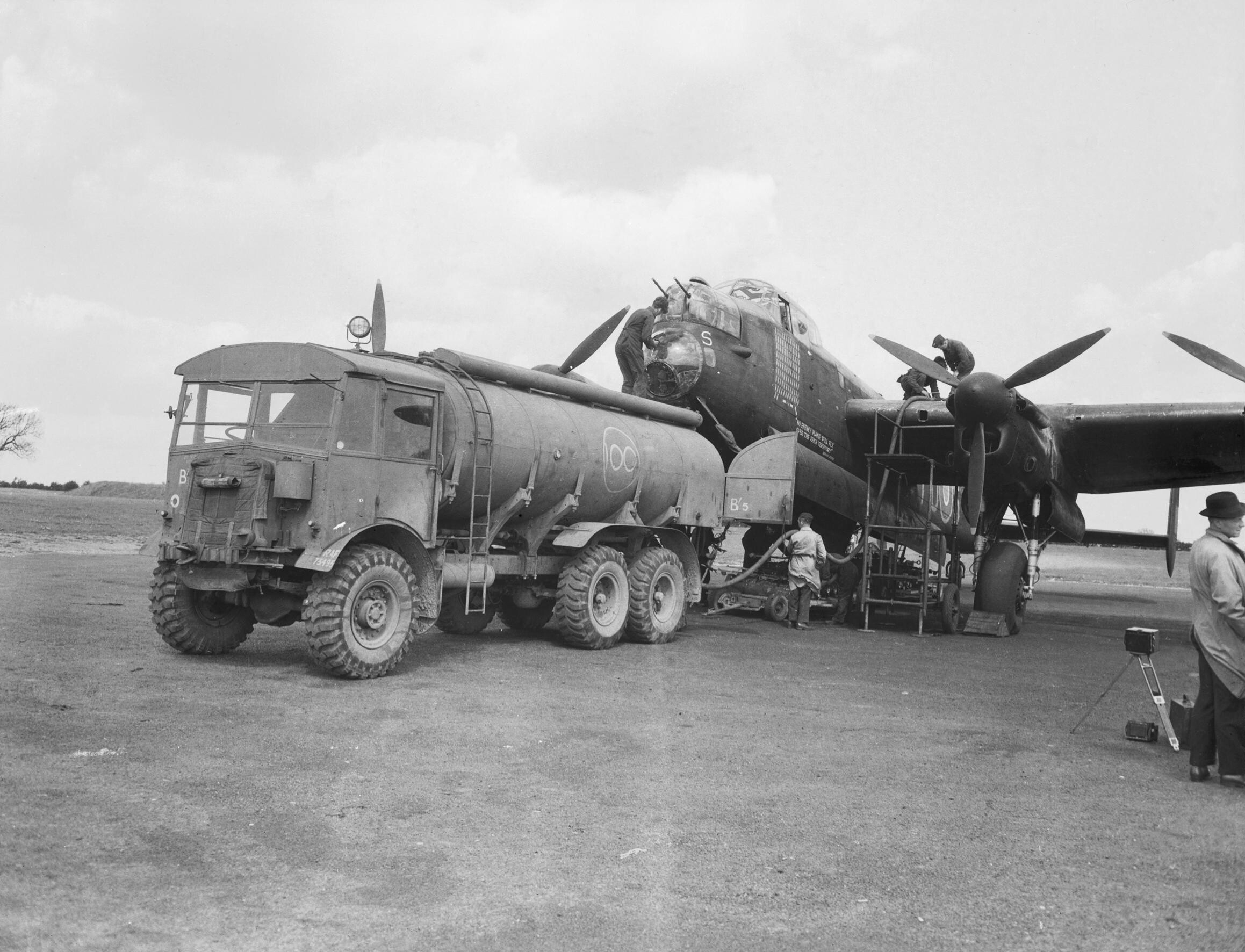 The Royal Air Force during the Second World War The Avro Lancaster B I R5868 'S-Sugar' refuels at RAF Hunsdon after completing its 100th operation the previous evening against Bourg Leopold in Belgium on 12 May 1944. The 2500 gallon tank truck is AEC 854.